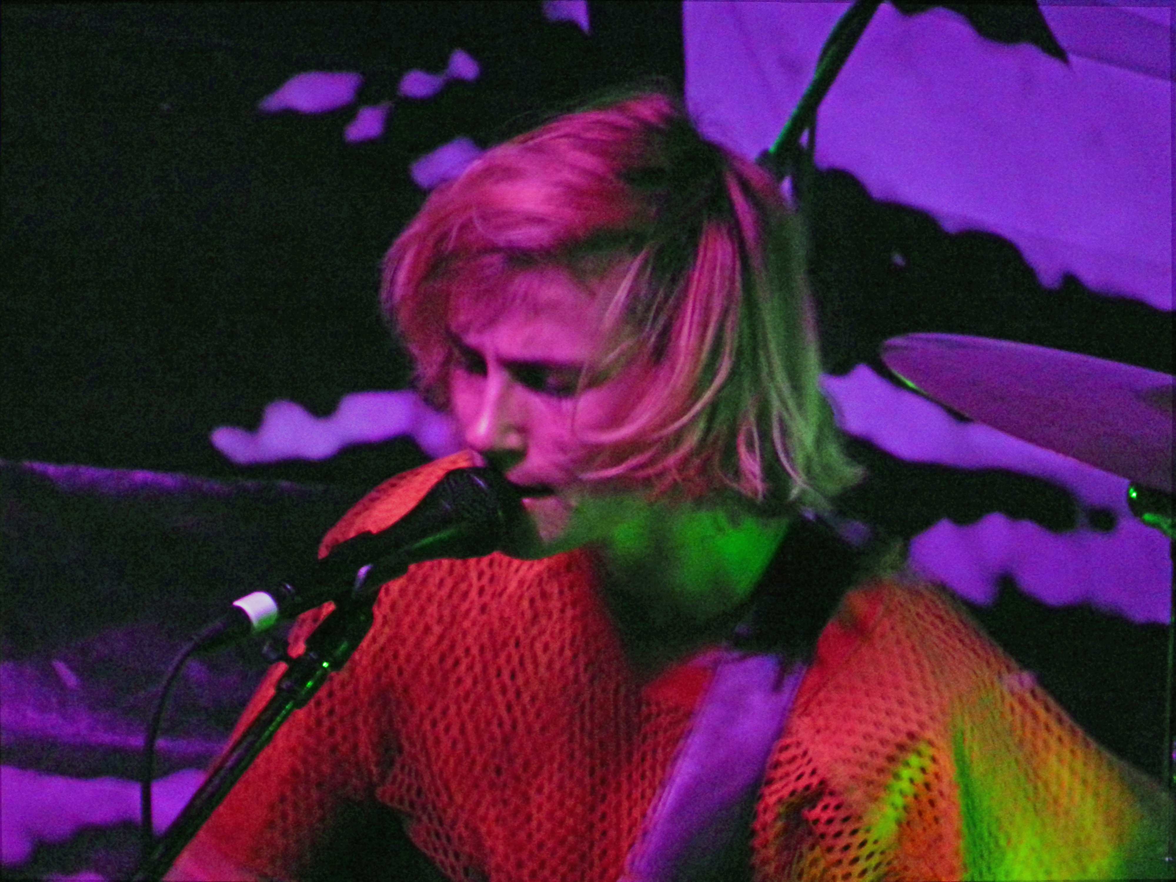 DIIV @ the Regency, San Francisco, 4/18/2013